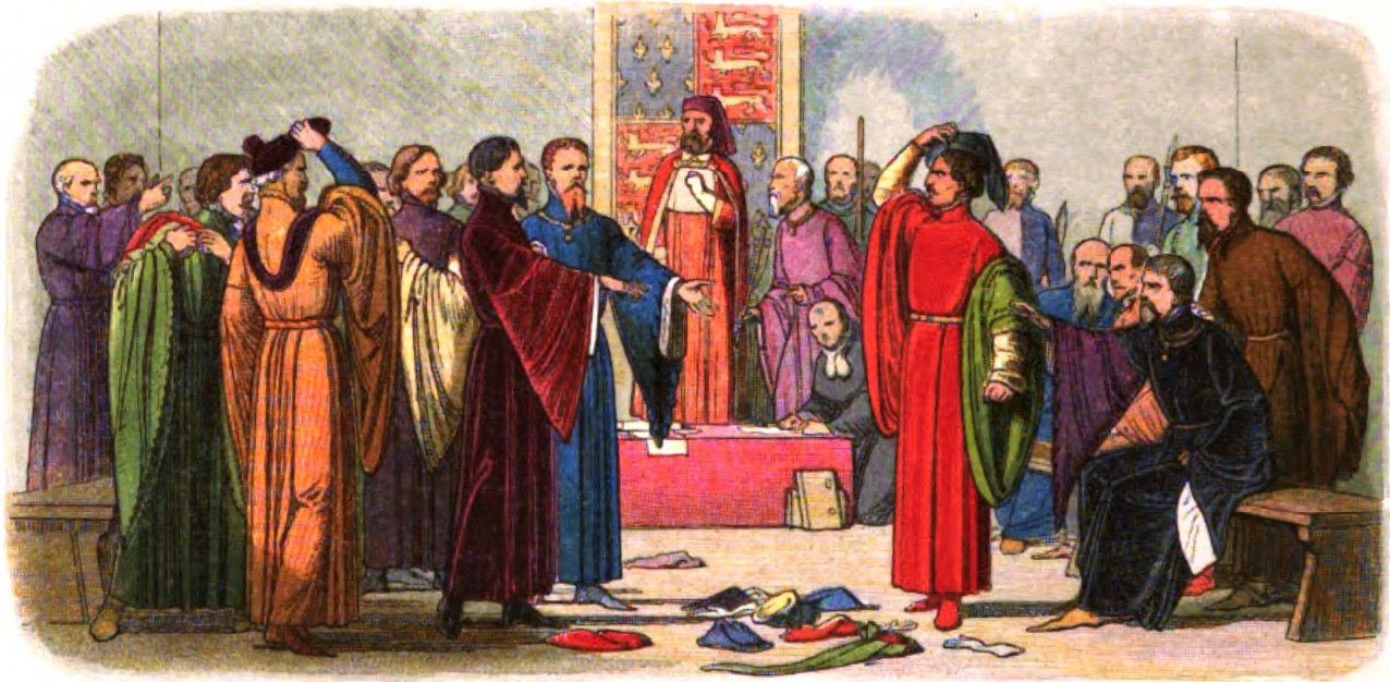 Walter FitzWalter, 5th Baron FitzWalter, has a heated exchange with Edward, Duke of Albemarle, in the court of Henry IV.